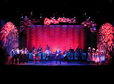 The cast of Buddy - The Buddy Holly Story, produced by Pacific Repertory Theatre at the Post. St. Theatre in San Francisco. CA. The production won numerous awards from the SF Bay Area Critics Circle including Best Musical.